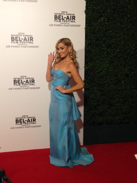 Christina Collard at the 2014 Bel Air Film Festival